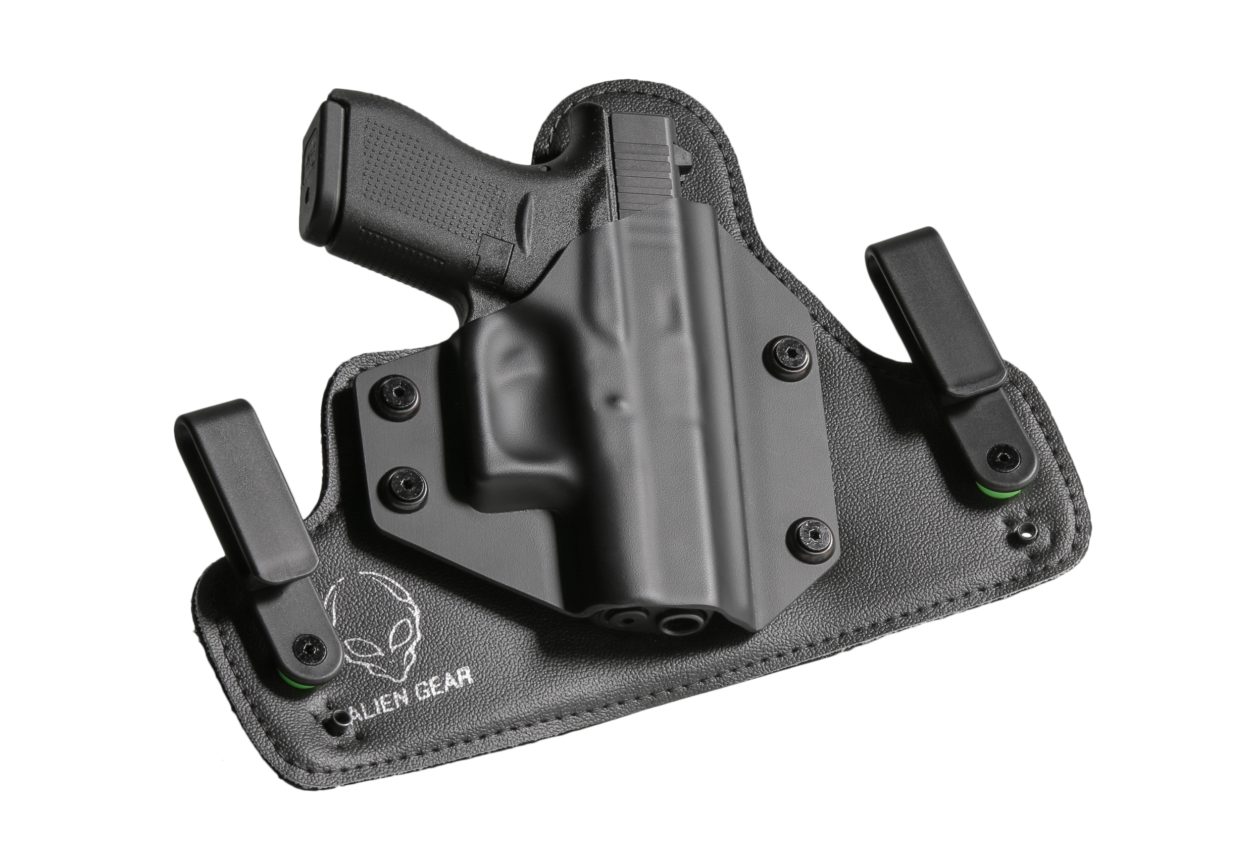 feel free to use but give credit to